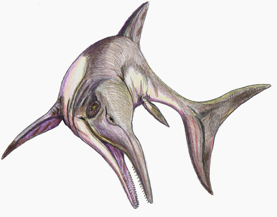 Platypterygius longmani, reconstruction